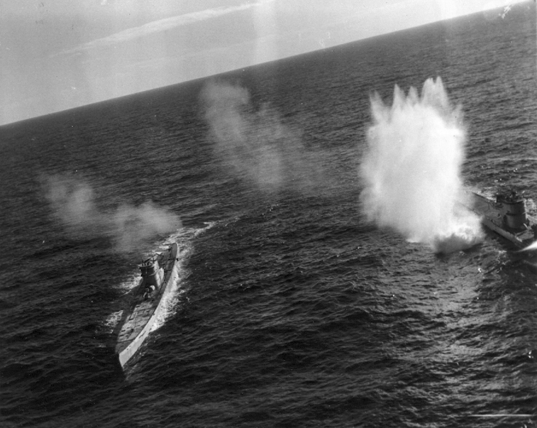 U-66 rendevoused with U-117 on 7 August 1943 for fuel, provisions and medical aid. While alongside the pair was attacked by aircraft of the USS Card. U-117 was sunk and U-66 escaped.